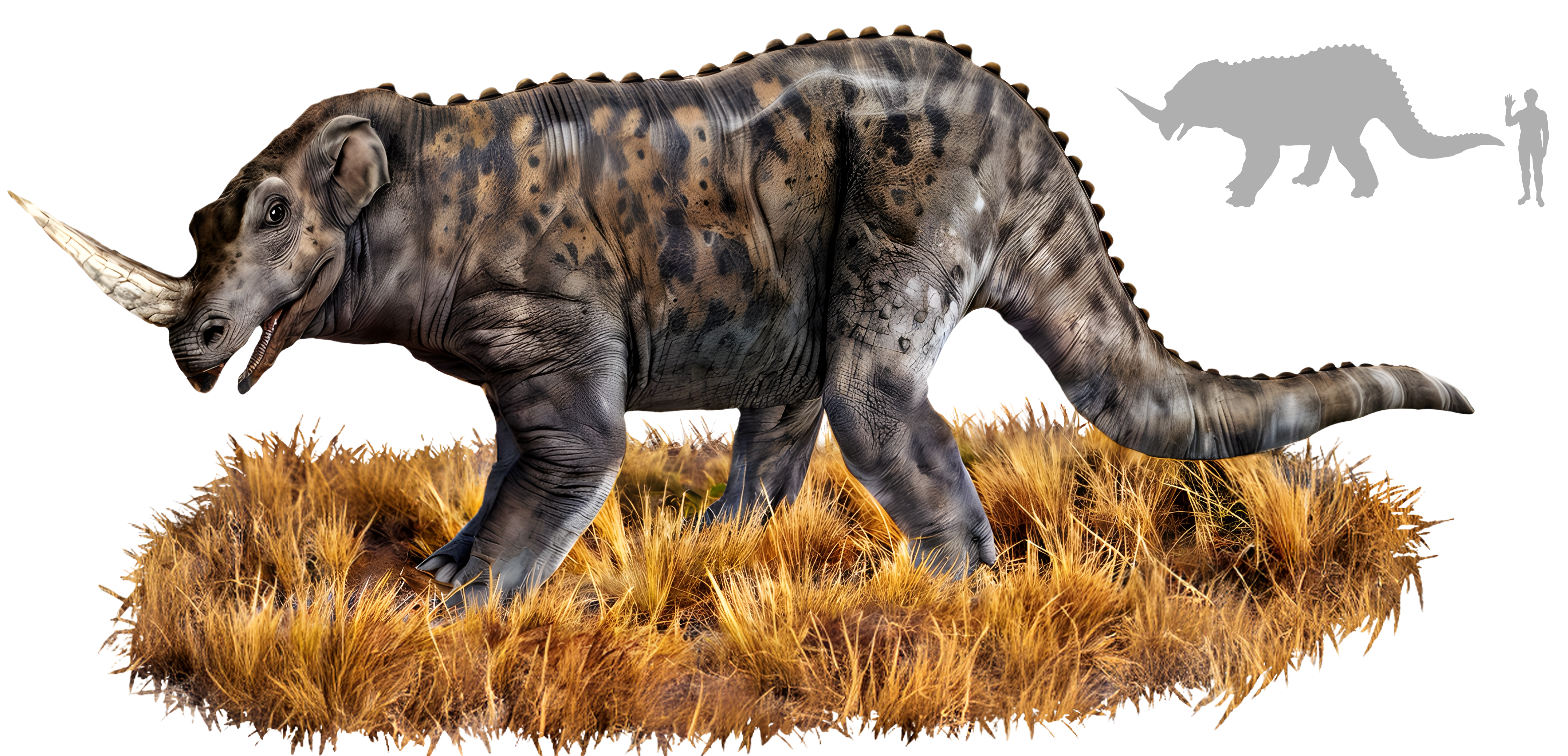 Emela-ntouka artist's impression